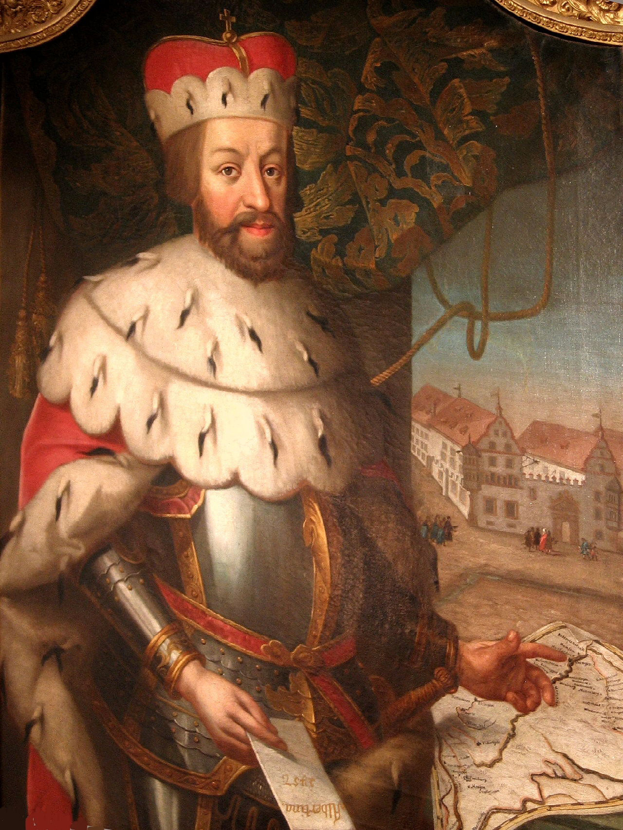 Archduke Albrecht VI, founder of Freiburg's university